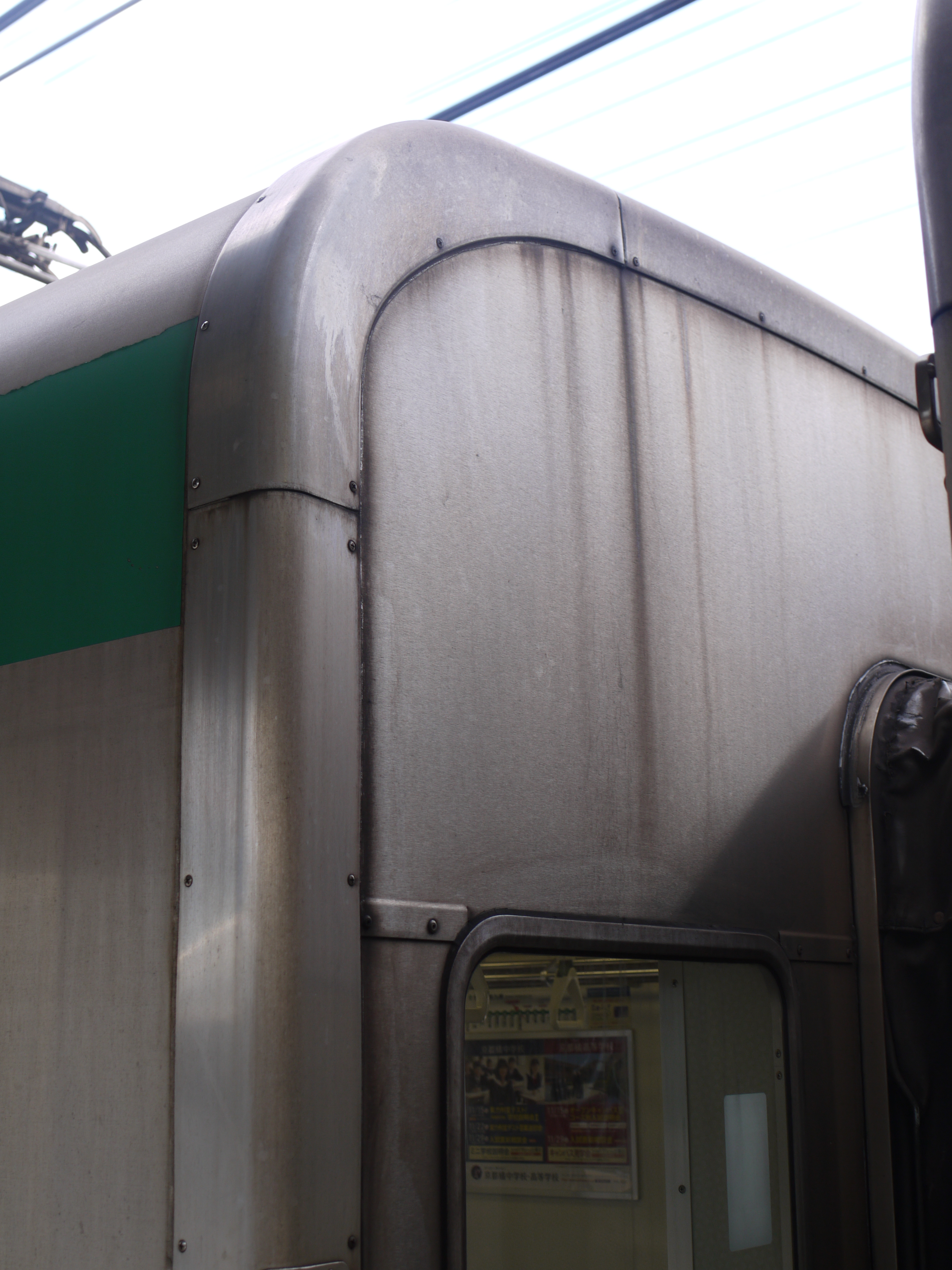 Connecting side face of Kyoto subway 10 series. While the train is made by aluminium, this face is covered with stainless steel